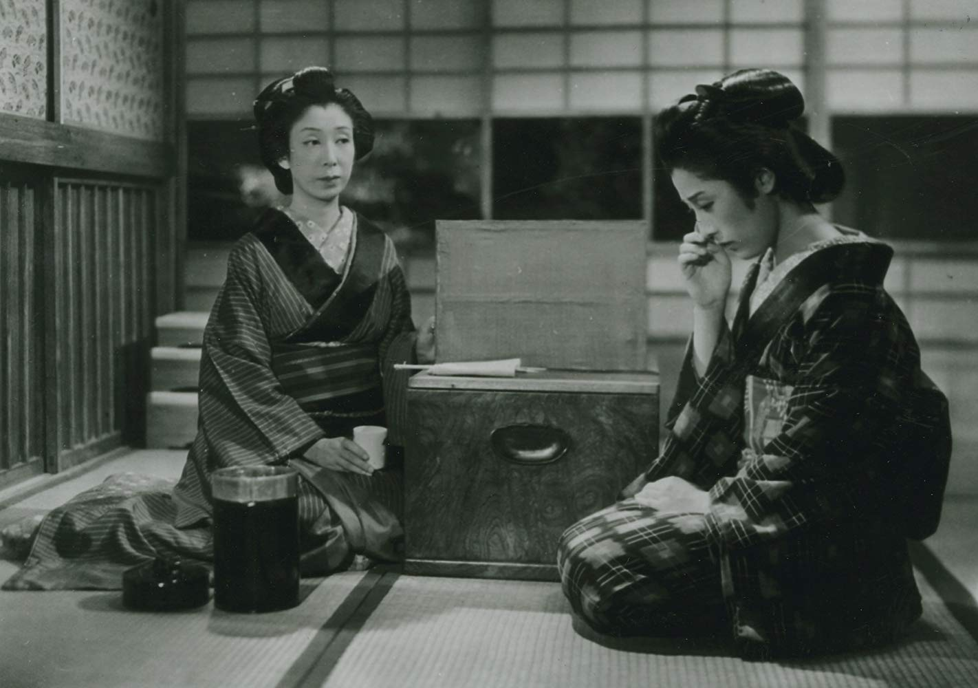 Yōko Umemura and Kakuko Mori in Zangiku monogatari (残菊物語), directed by Kenji Mizoguchi - 1939